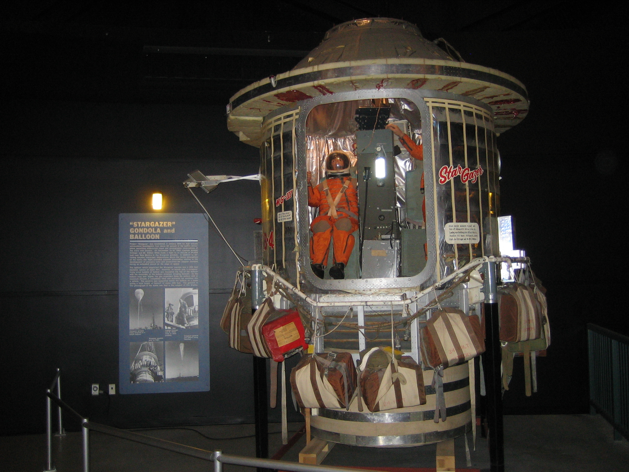 At the National Museum of the U.S. Air Force at Wright-Patterson AFB in Dayton, Ohio.